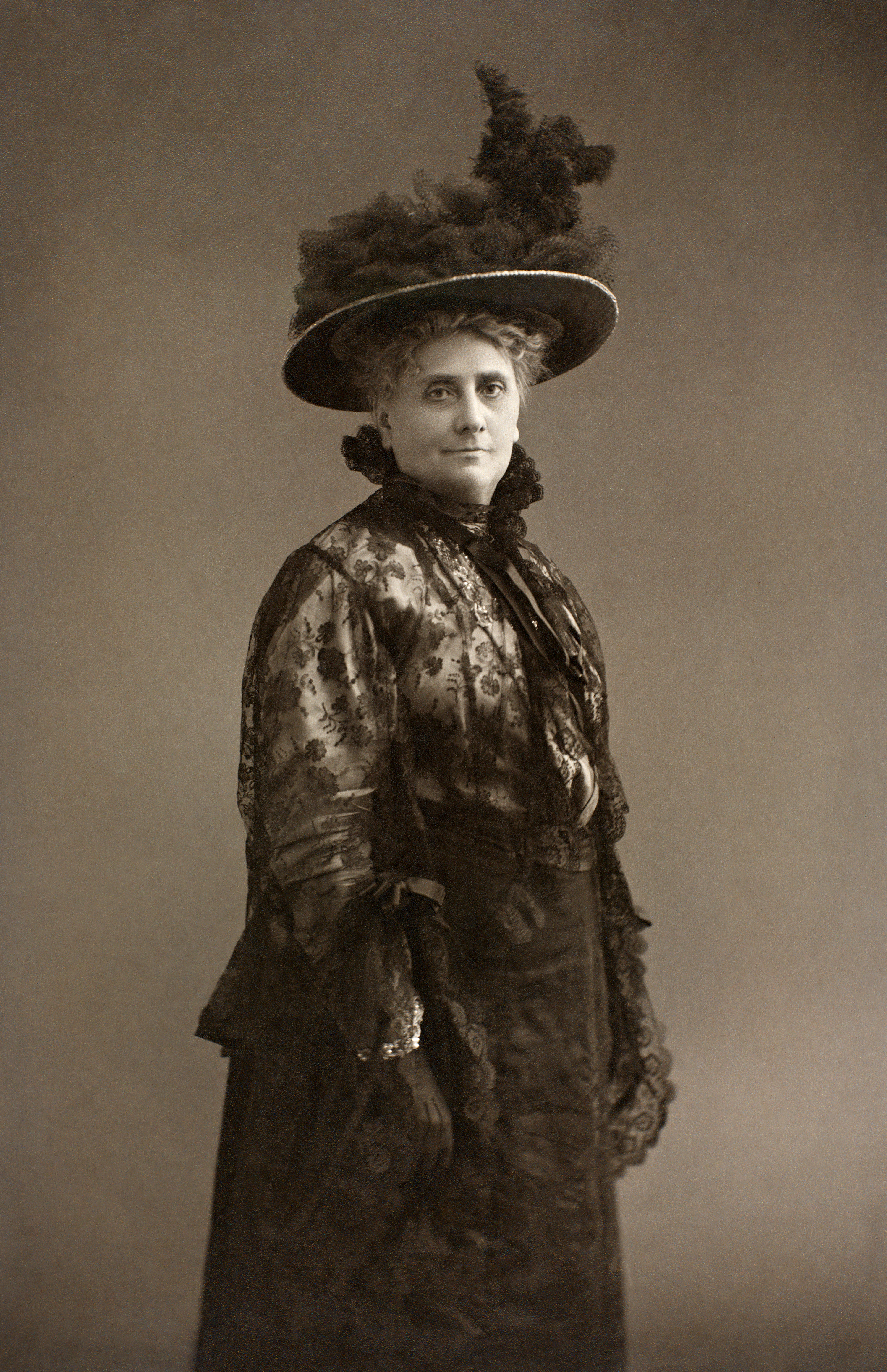 Tittel / Title: Portrett av Gina Krog (1847-1916) Dato / Date: ukjent / unknown Fotograf / Photographer: Eivind Enger Sted / Place: Oslo Eier / Owner Institution: Nasjonalbiblioteket / National Library of Norway Lenke / Link: Bildesignatur / Image Number: blds_01297